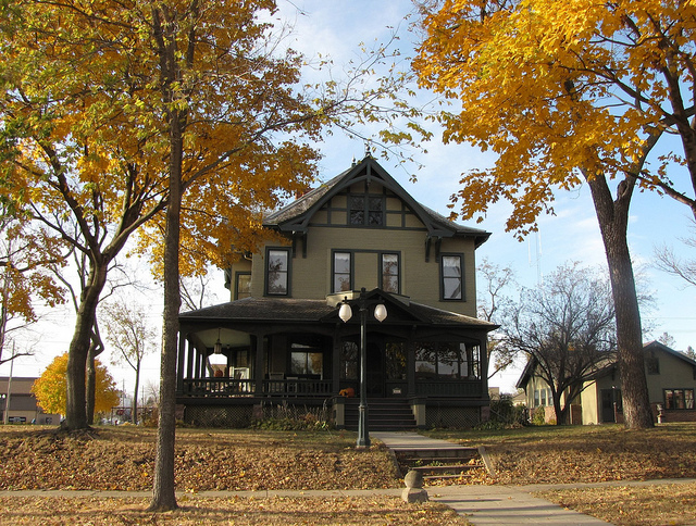 The William F. Gieseke House. On the National Register of Historic Places.